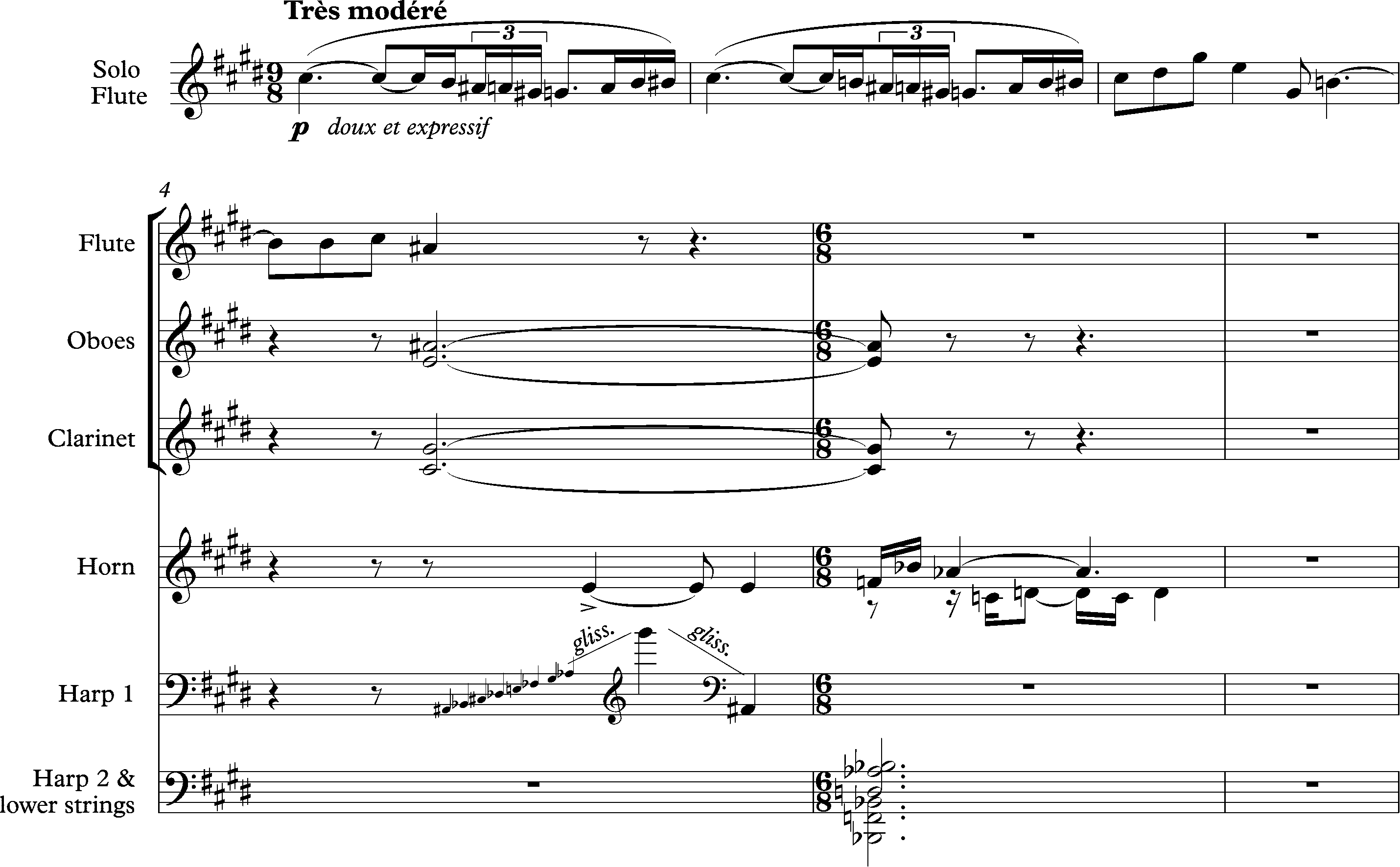 Debussy, Prelude a l'apres midi d'un faune, opening bars